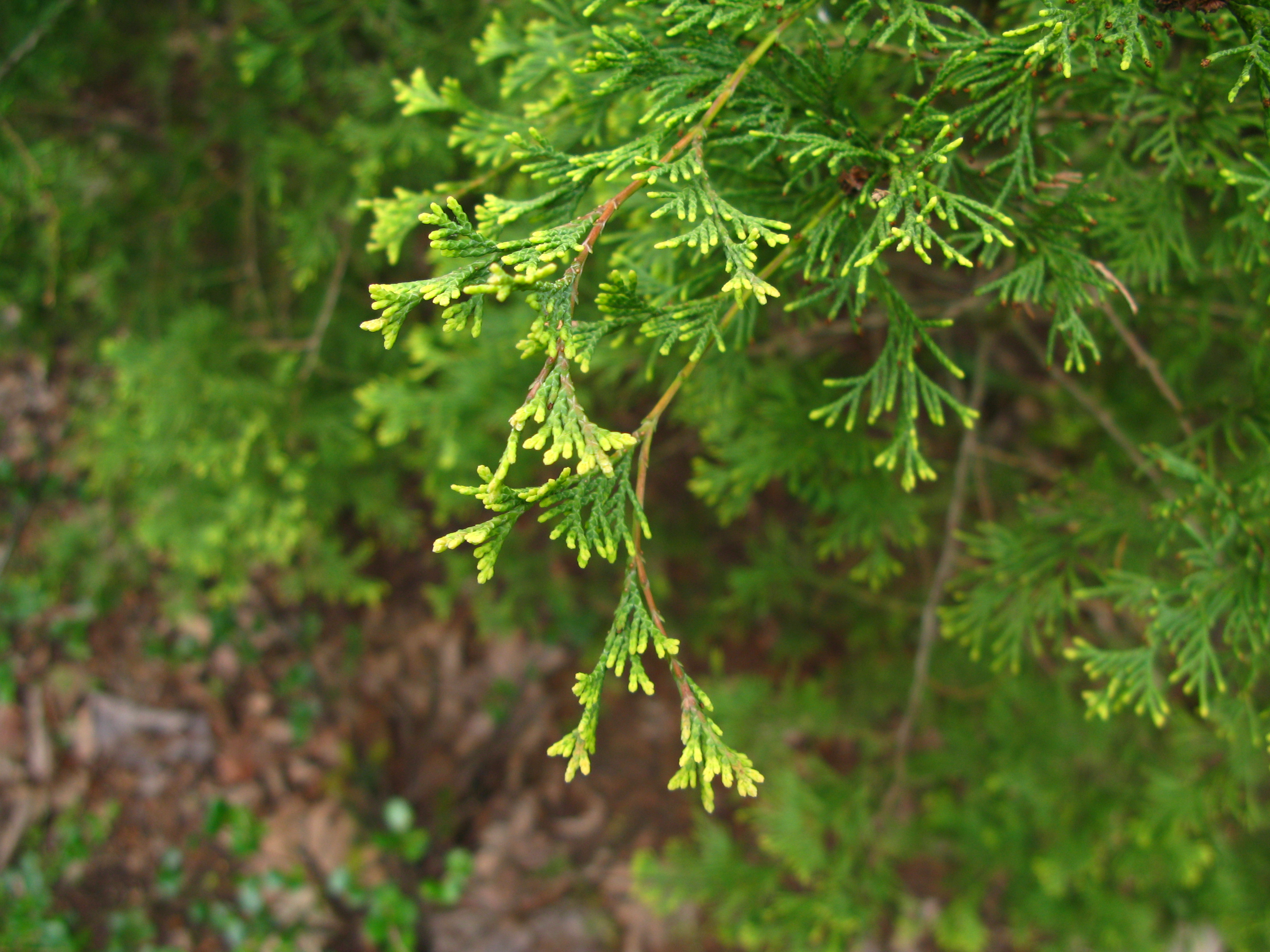 Chamaecyparis thyoides in Arboretum in PAN Botanical Garden in Warsaw